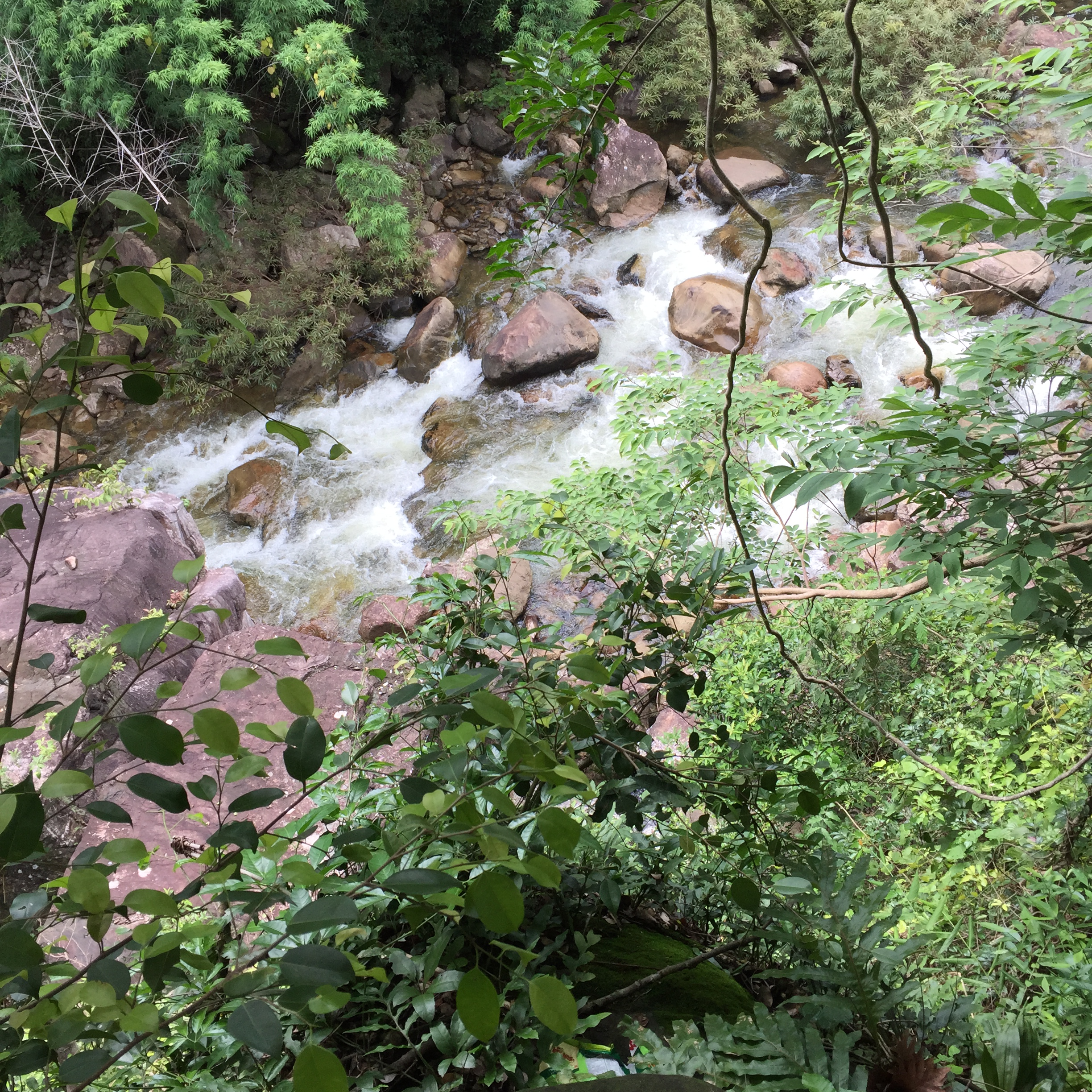 Than Thip Waterfall, Bu Fai, Prachantakham District, Prachin Buri 25130, Thailand